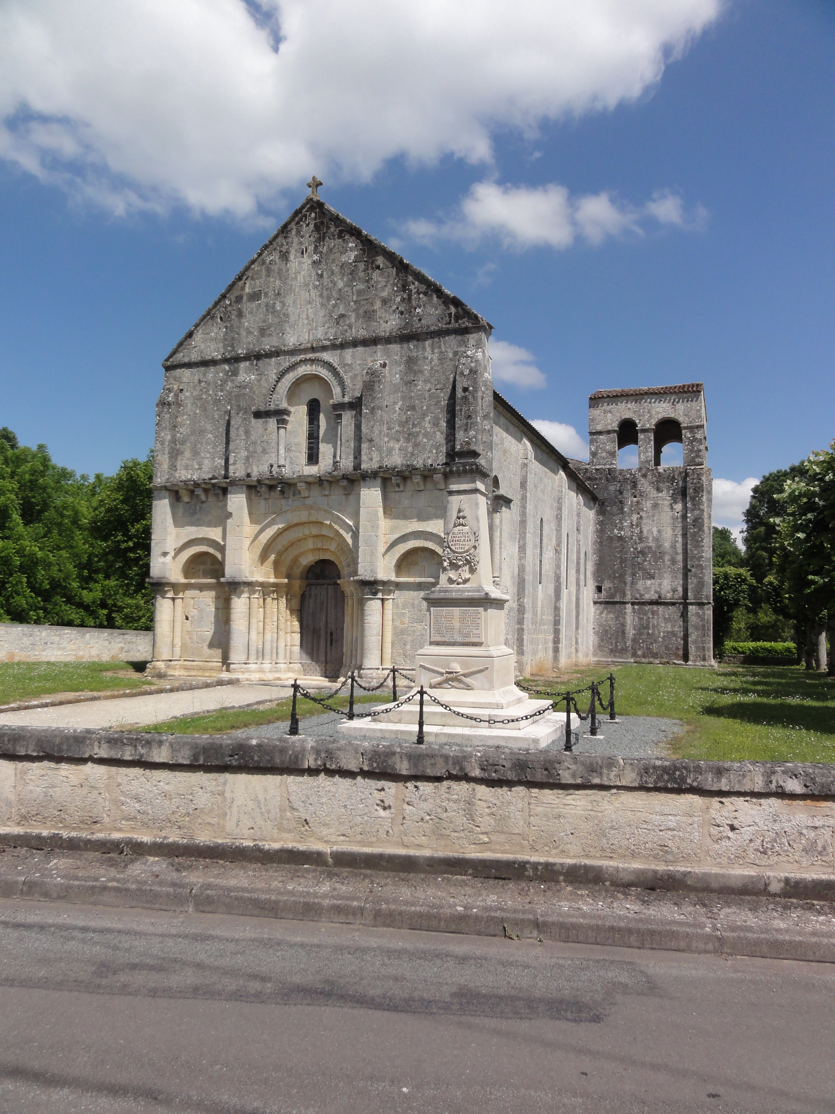 Grandjean (Charente-Maritime) église, extérieur .